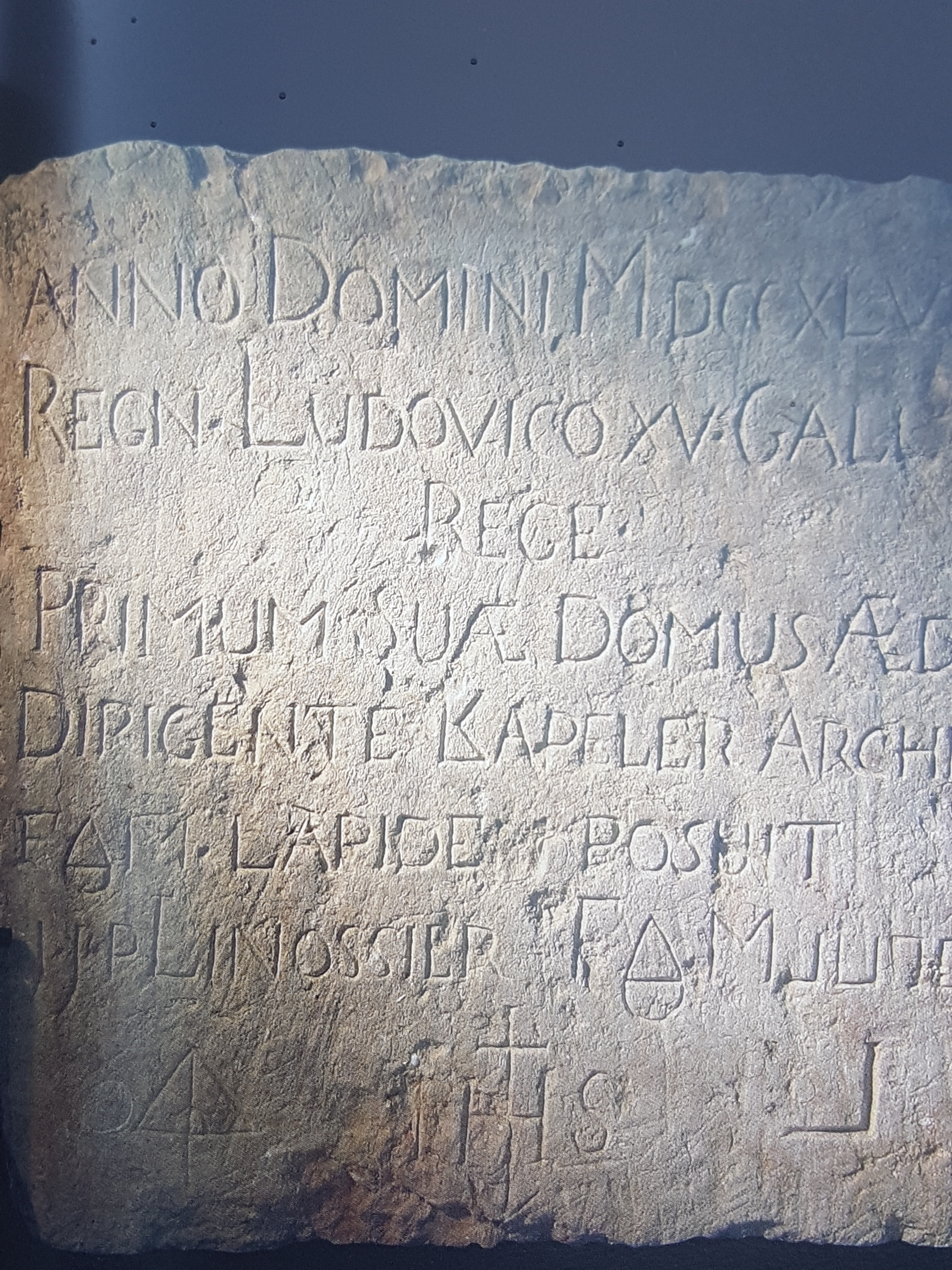 pierre gravée 1747